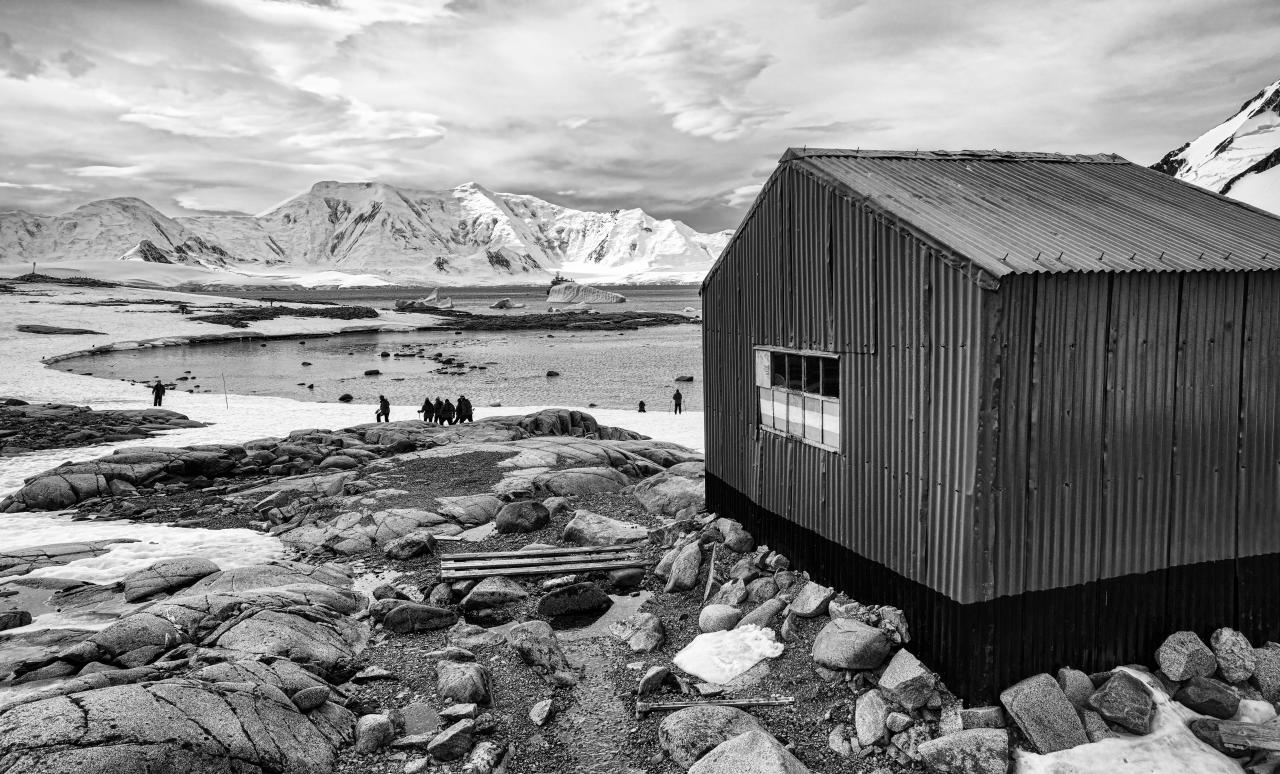 Antarctica 2013: Journey to the Crystal Desert